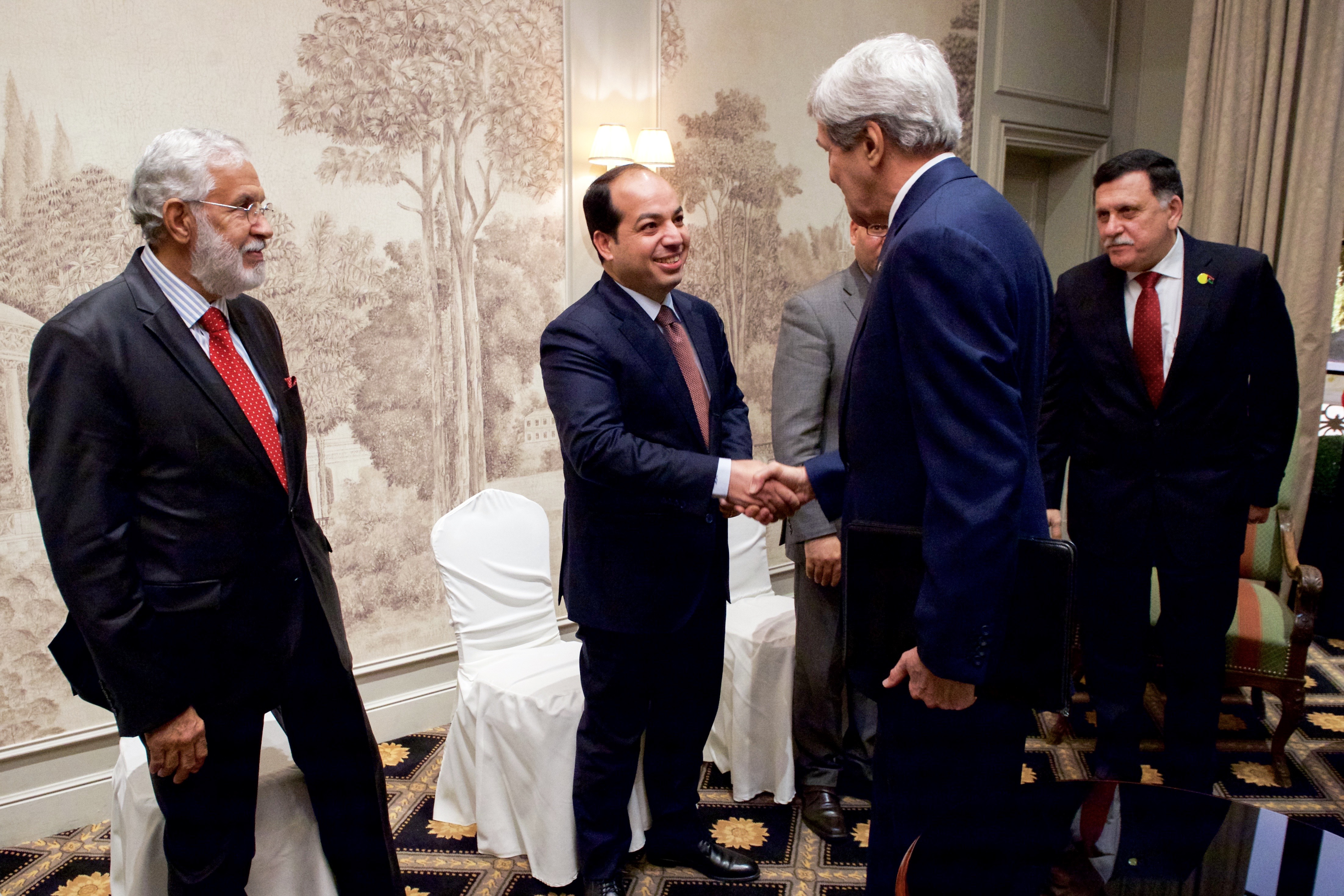 U.S. Secretary of State John Kerry shakes hands with advisers to Libyan Prime Minister Fayez al-Sarraj at the Bristol Hotel in Vienna, Austria, on May 16, 2016, before a series of multilateral meetings in the Austrian capital focused on Libya, Syria, and other regional hotspots. [State Department photo/ Public Domain]